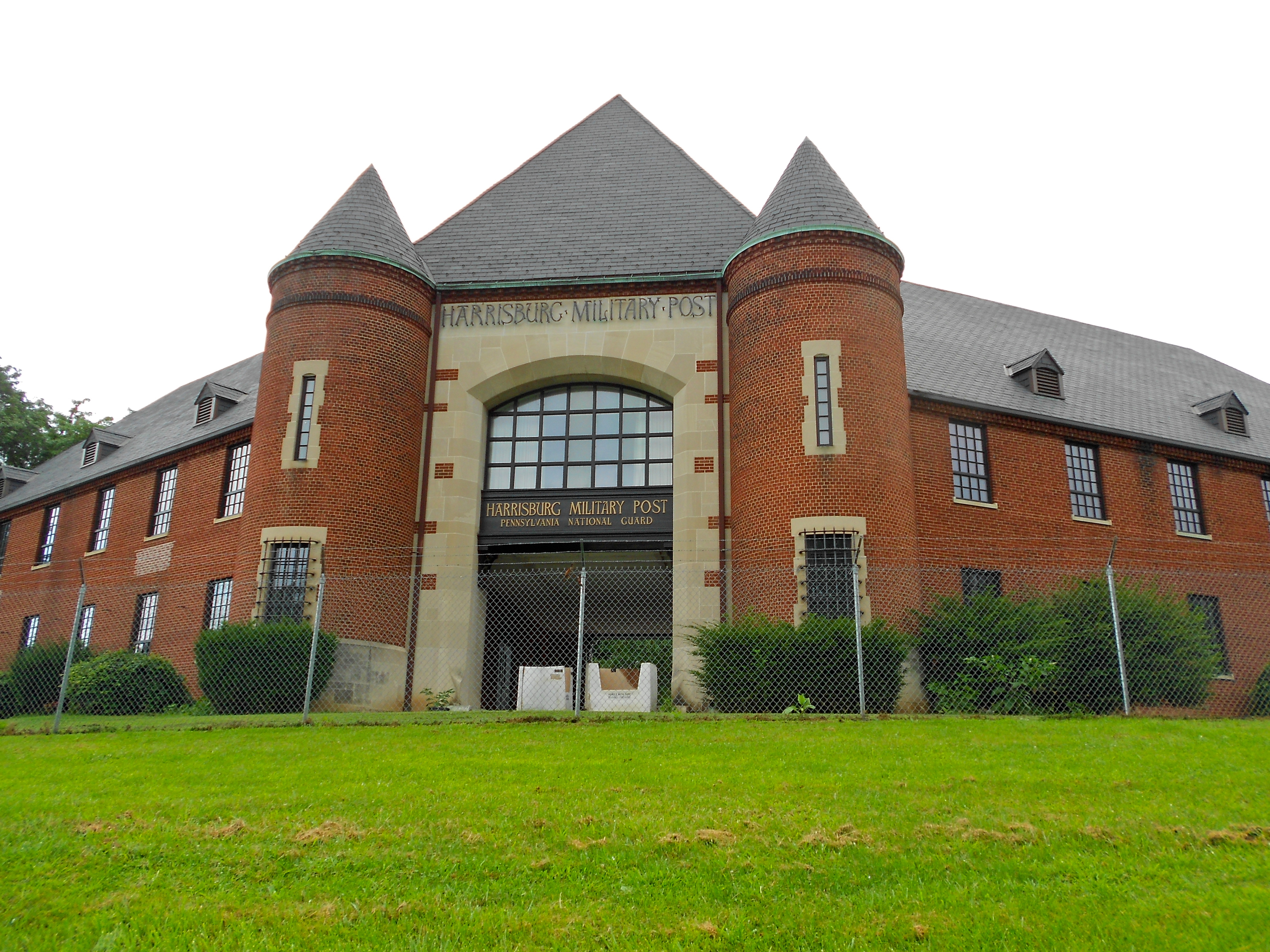 Harrisburg Military Post at the junction of 14th and Calder Streets, Harrisburg, Dauphin County, Pennsylvania. Listed on the NRHP on November 29, 1991.